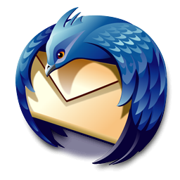 Logo/icon of Mozilla Thunderbird until 2009